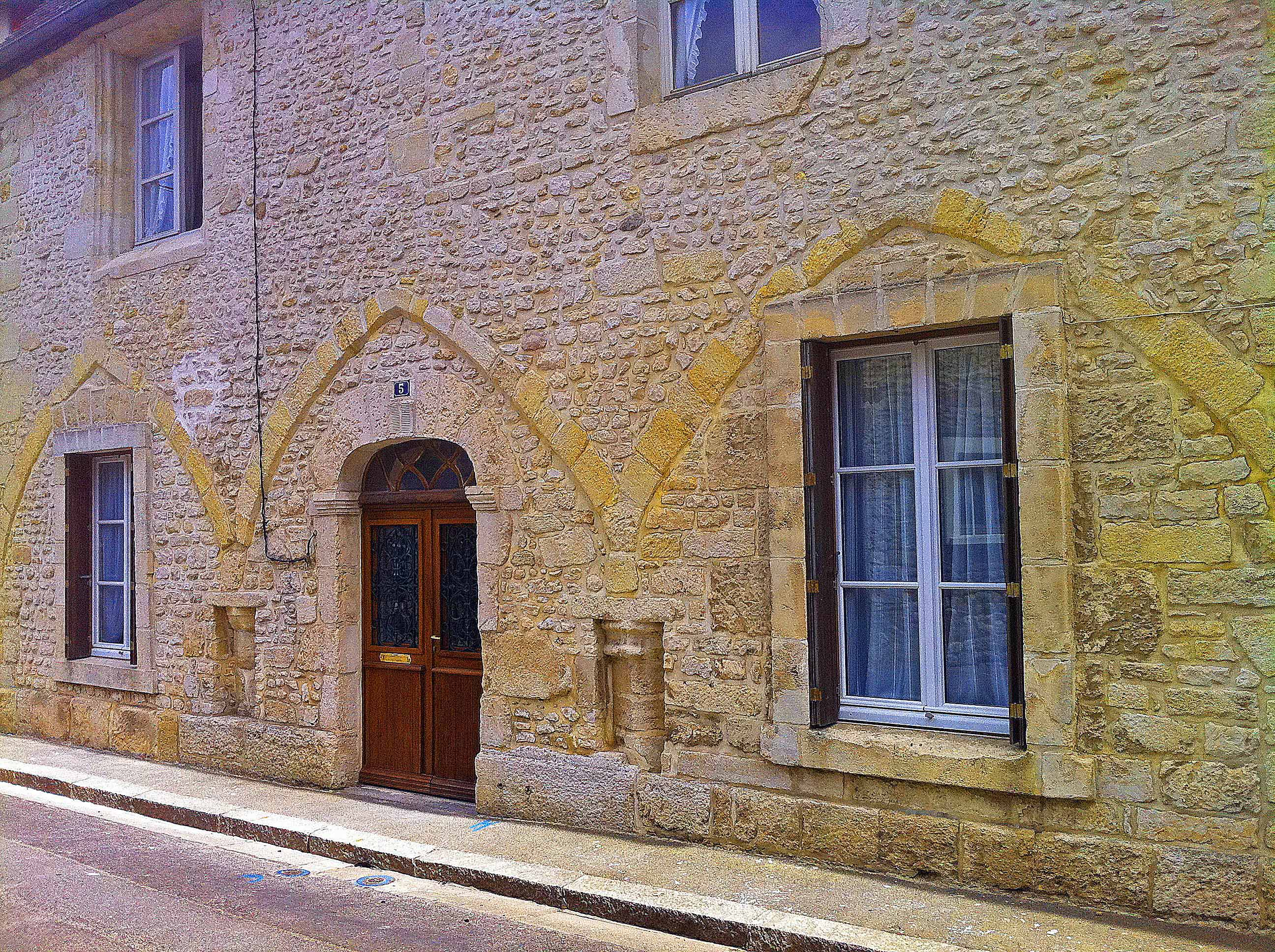 Arches Ecouche